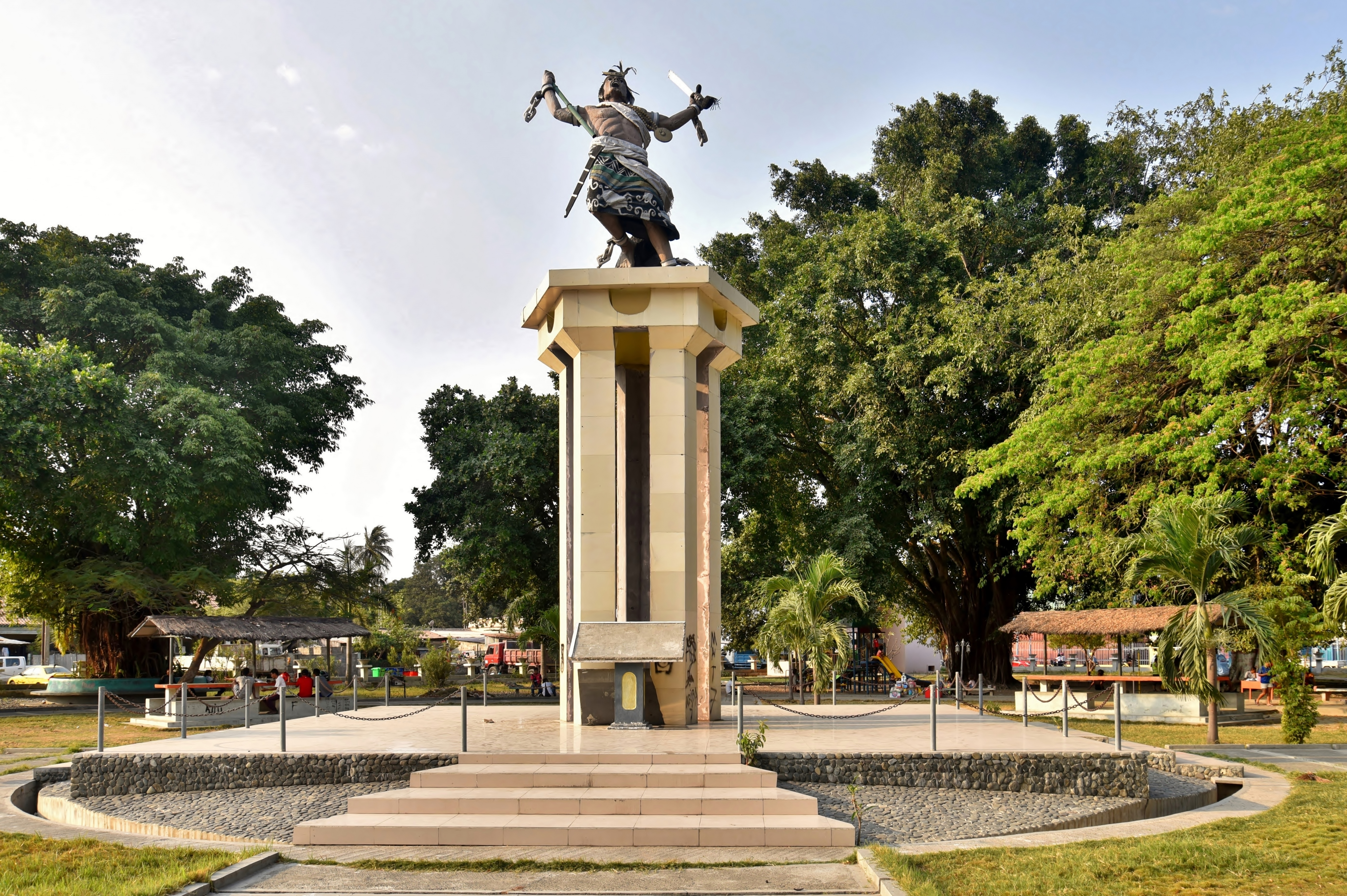 View of the main monument at the Jardim 5 de Maio, Dili, East Timor